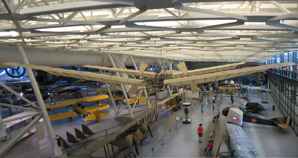 Langley Aerodrome on display at Steven F. Udvar-Hazy Center in Chantilly, Virginia.